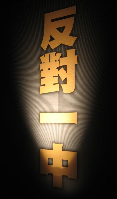 Fire of Human Rights in 2008中文（台灣）: 人權之火自由愛，聲援圖博/西藏，反對一中。